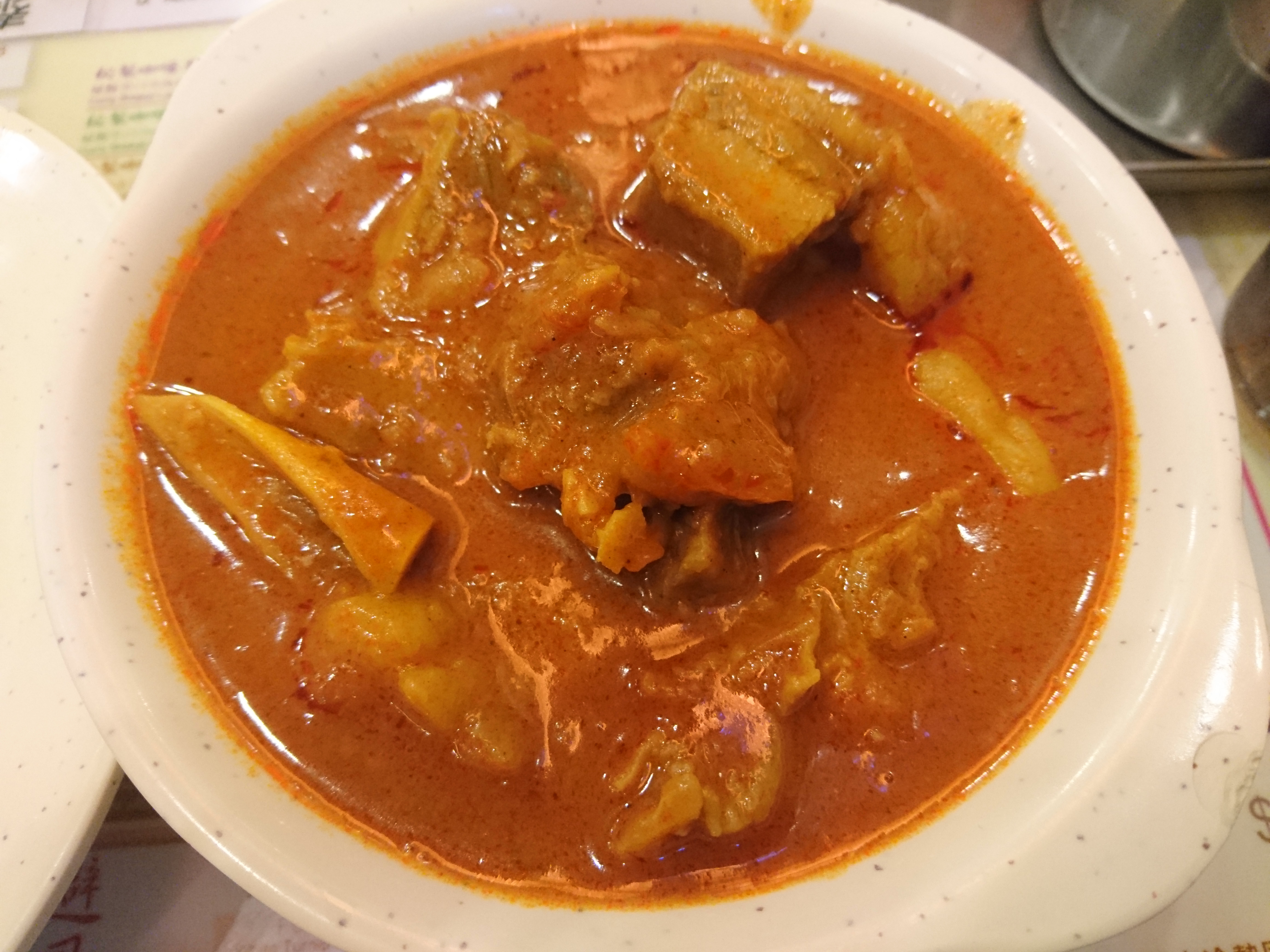 Red Curry Beef Brisket in Hong Kong Cha Chaan Teng